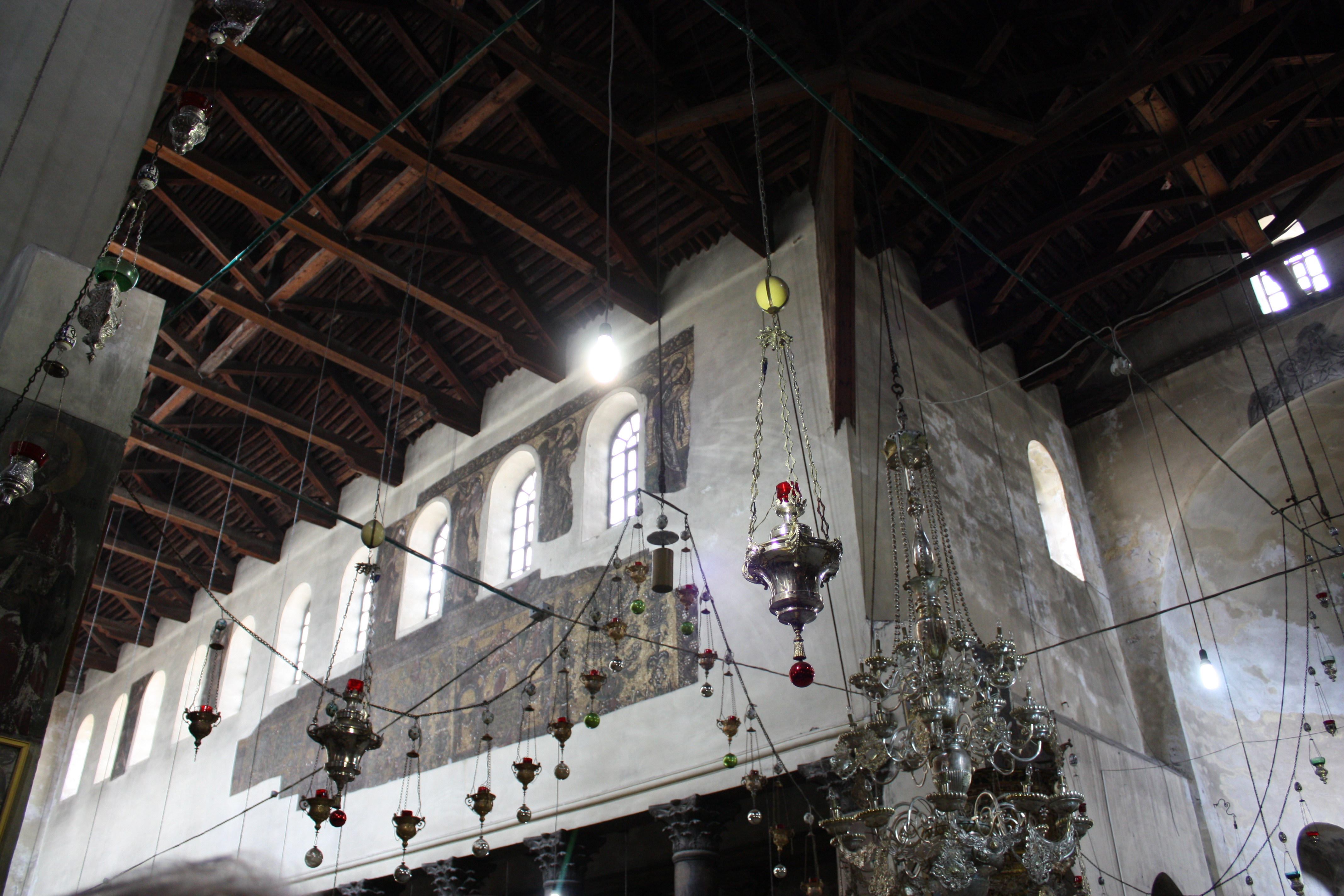 Interior of the Church of the Nativity.